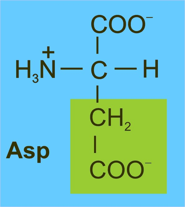 Aspartic acid amino acid formula jpg